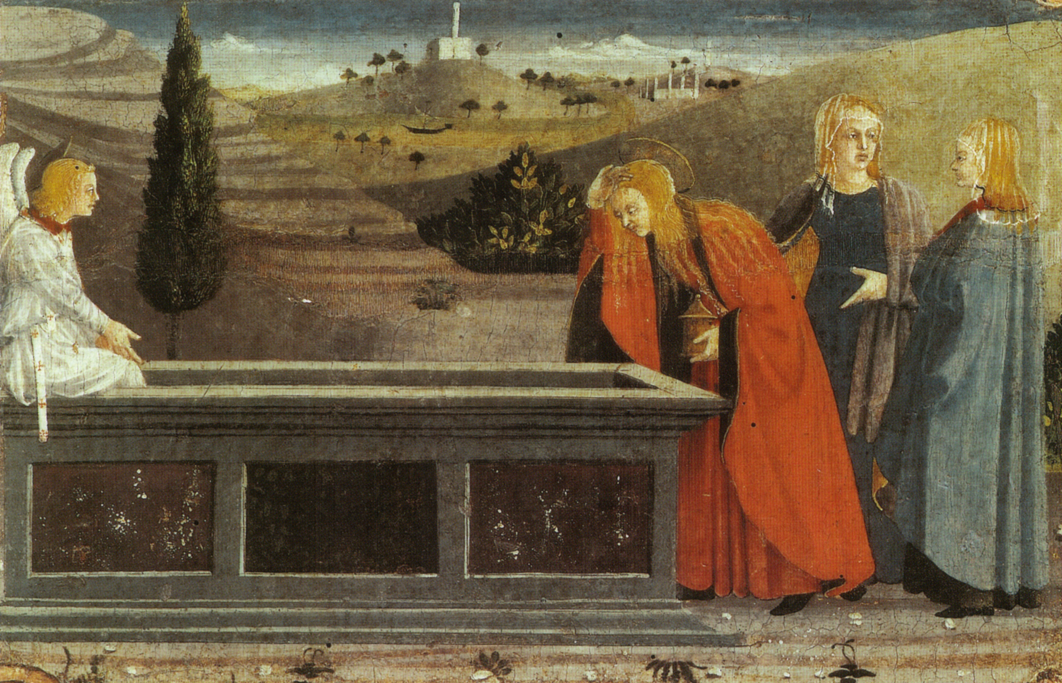 part of the Misericordia Altarpiece predella